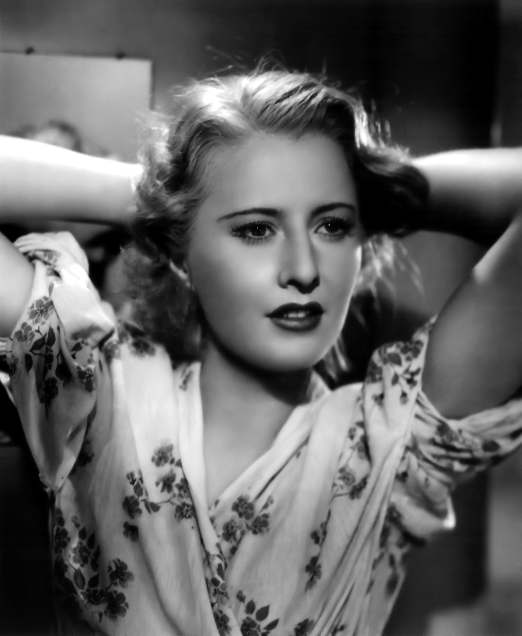 Publicity Still from Barbara Stanwyck's Stella Dallas, a 1937 film. The role earned her the nomination for an Academy Award for Best Actress.